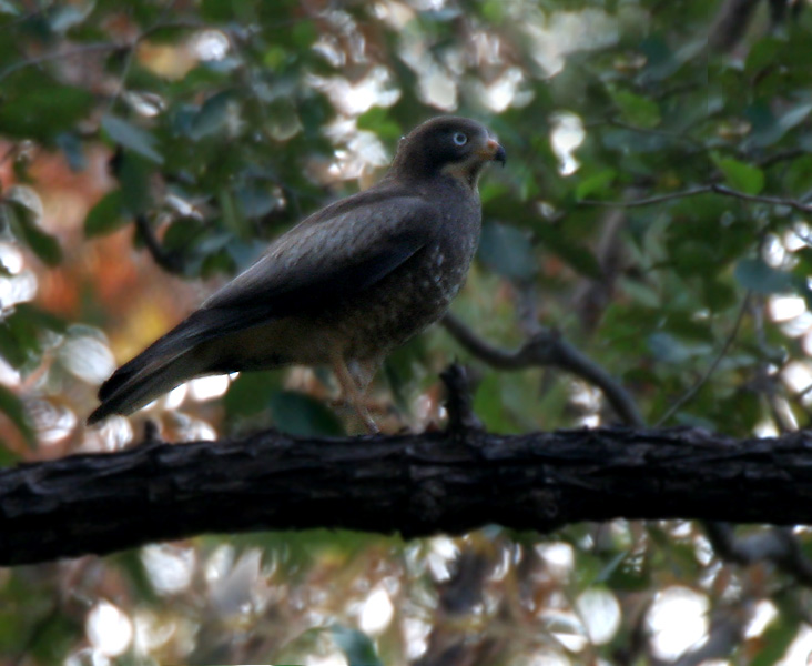 White-eyed Buzzard Butastur teesa in Kawal Wildlife Sanctuary, Andhra Pradesh, India.